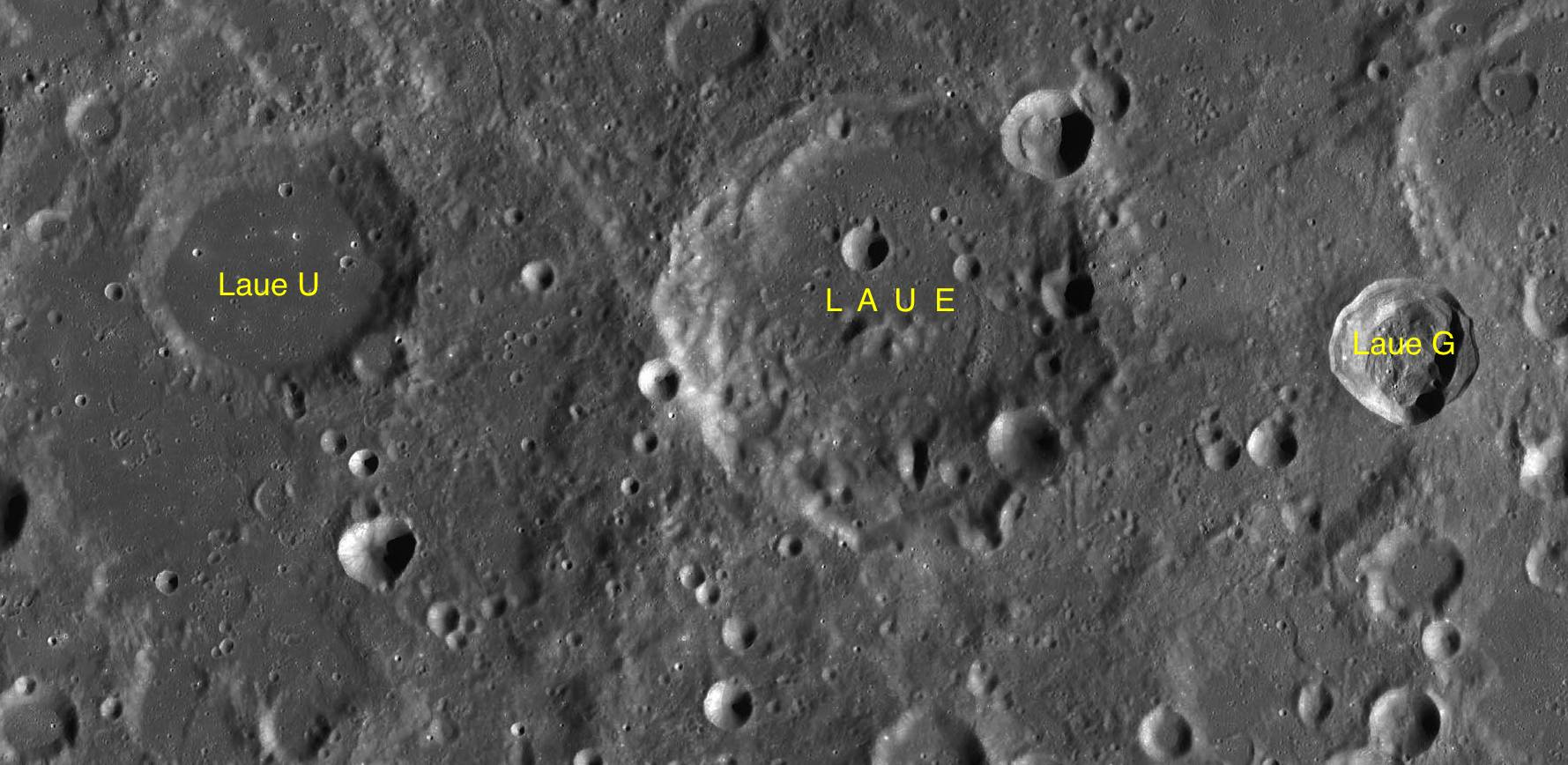 Part of the chart LAC-54 used for the presentation